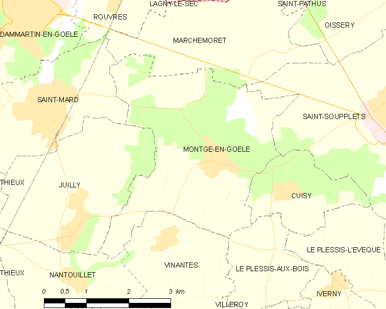 Map of French municipality Montgé-en-Goële